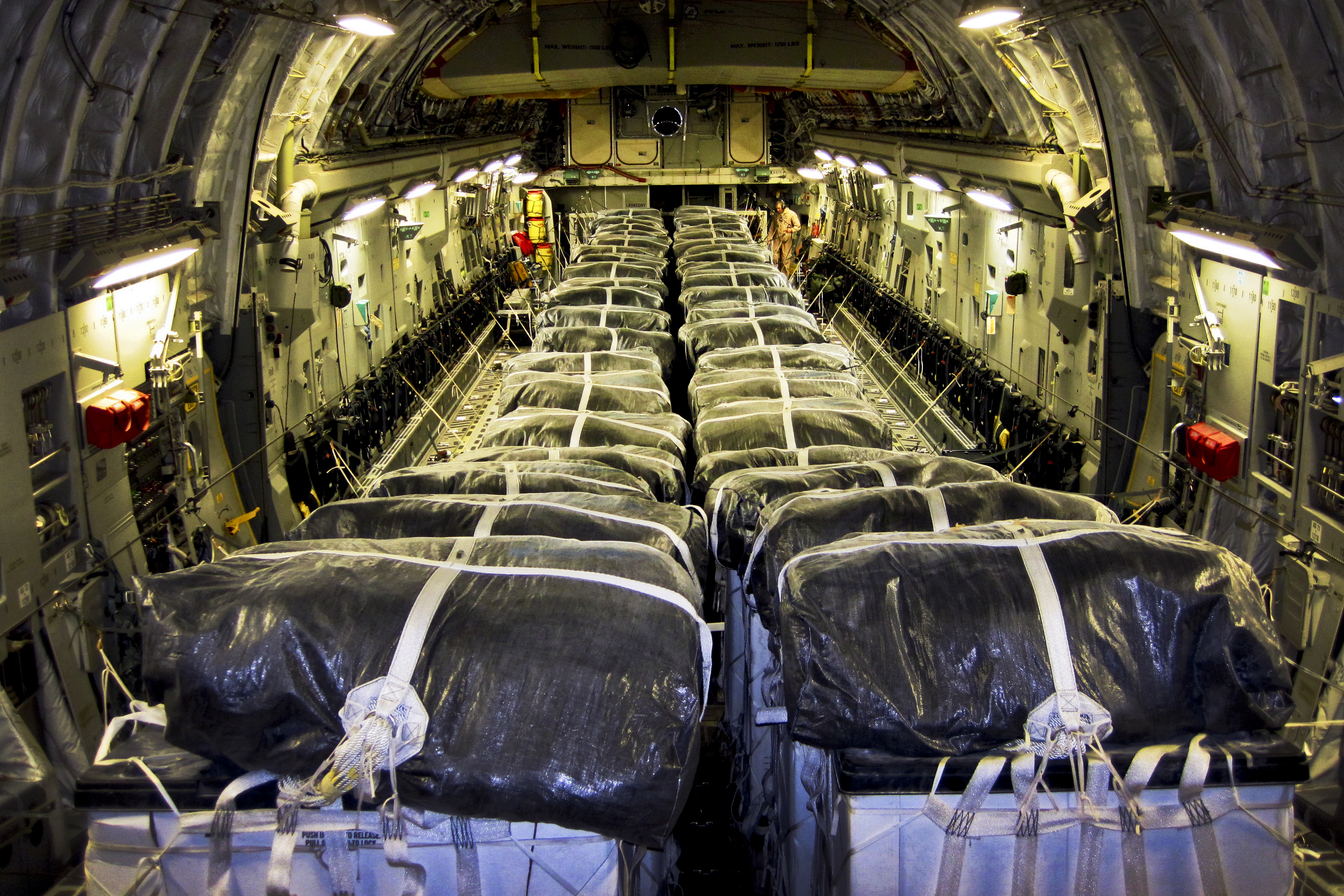 Bundles of water inside of a C-17 Globemaster III before a humanitarian airdrop over Iraq, Aug. 8, 2014 by the 816th Expeditionary Airlift Squadron of the United States Air Force.